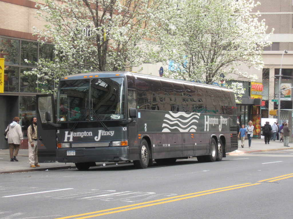 Hampton Jitney #101 lays over at its final stop at 86 Street and 3 Avenue in Manhattan.